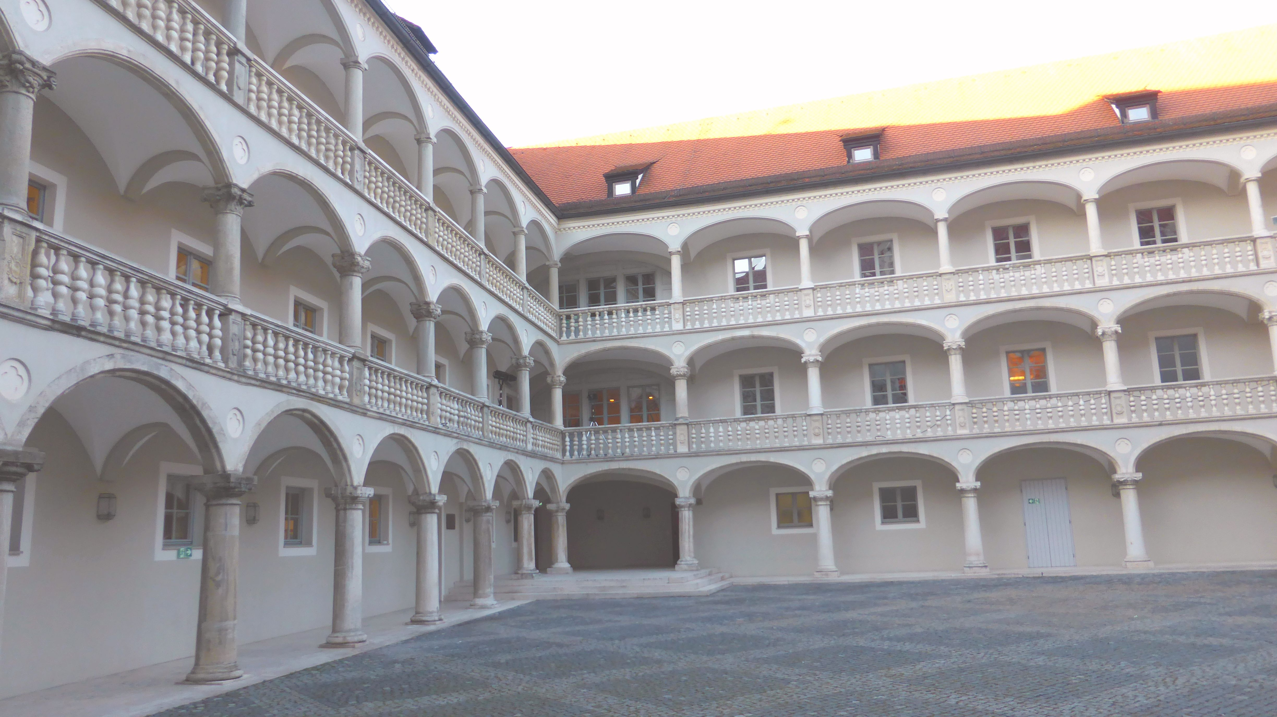 Innenhof (Thon-Dittmer-Palais)